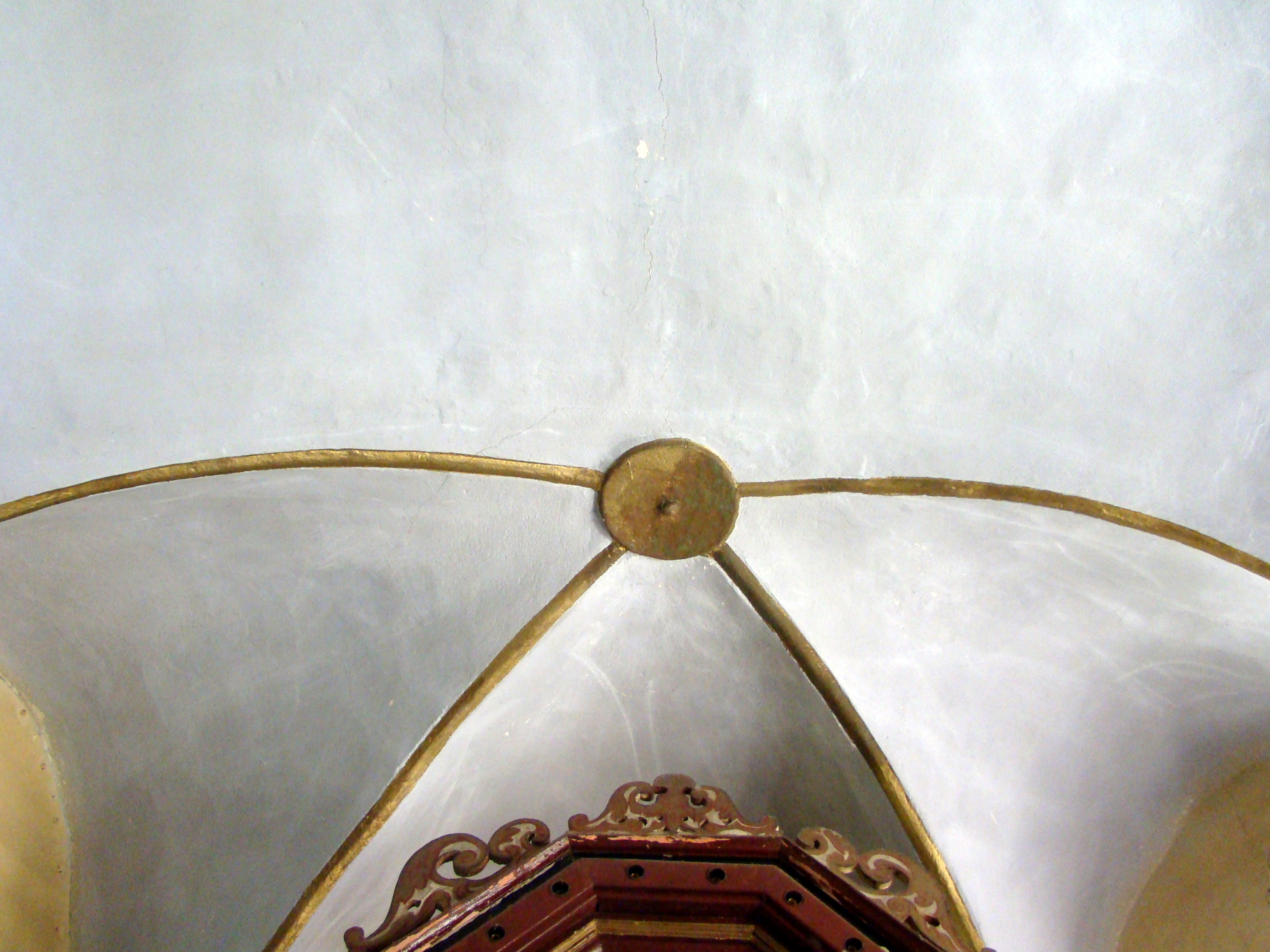 Lutheran church in Satu Nou, Brașov County, Romania